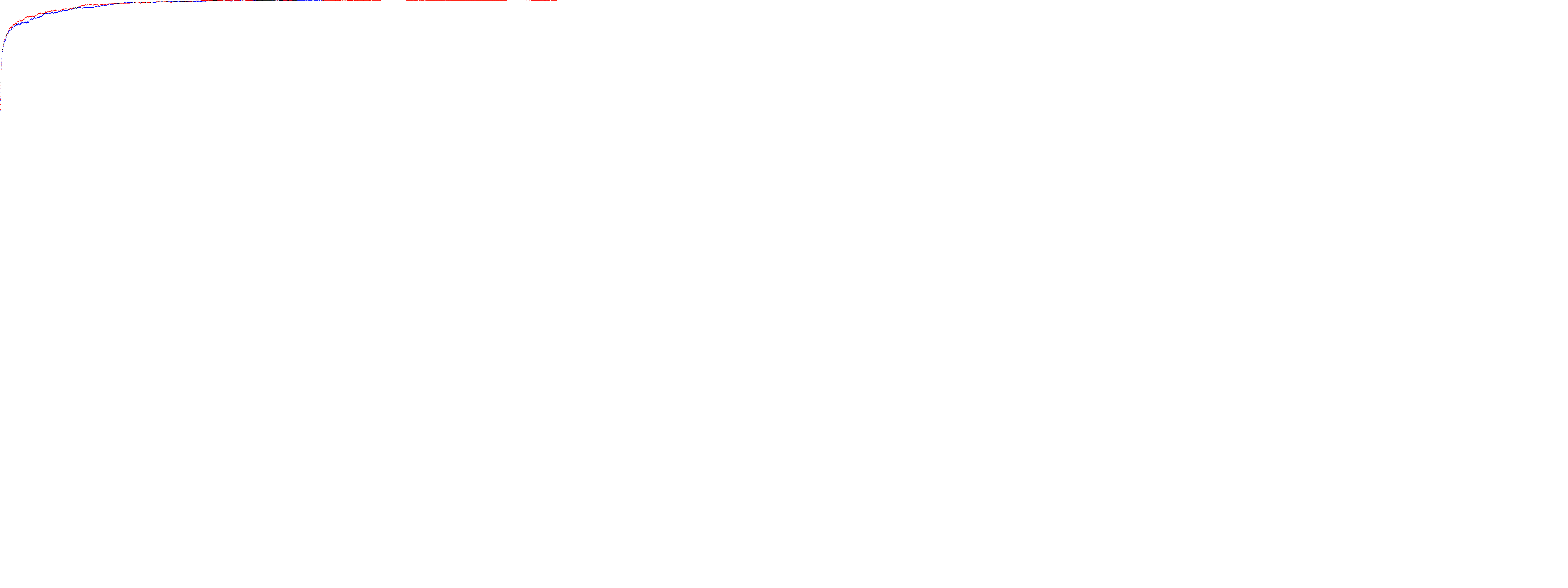 A graph of mobility for the Biham-Middleton-Levine traffic model corresponding to the lattice in File:Bml x 512 y 512 p 29 iterated 0.png and File:Bml x 512 y 512 p 29 iterated 32000.png. The vertical axis represents the number of cars that can move, and the horizontal axis represents the turn. The vertical axis is normalized so tha the top edge is one and the bottom edge is zero; likewise the horizontal axis has a range of 0 to 32000. This was created with C++. Source code is located at user:Purpy Pupple/BML.